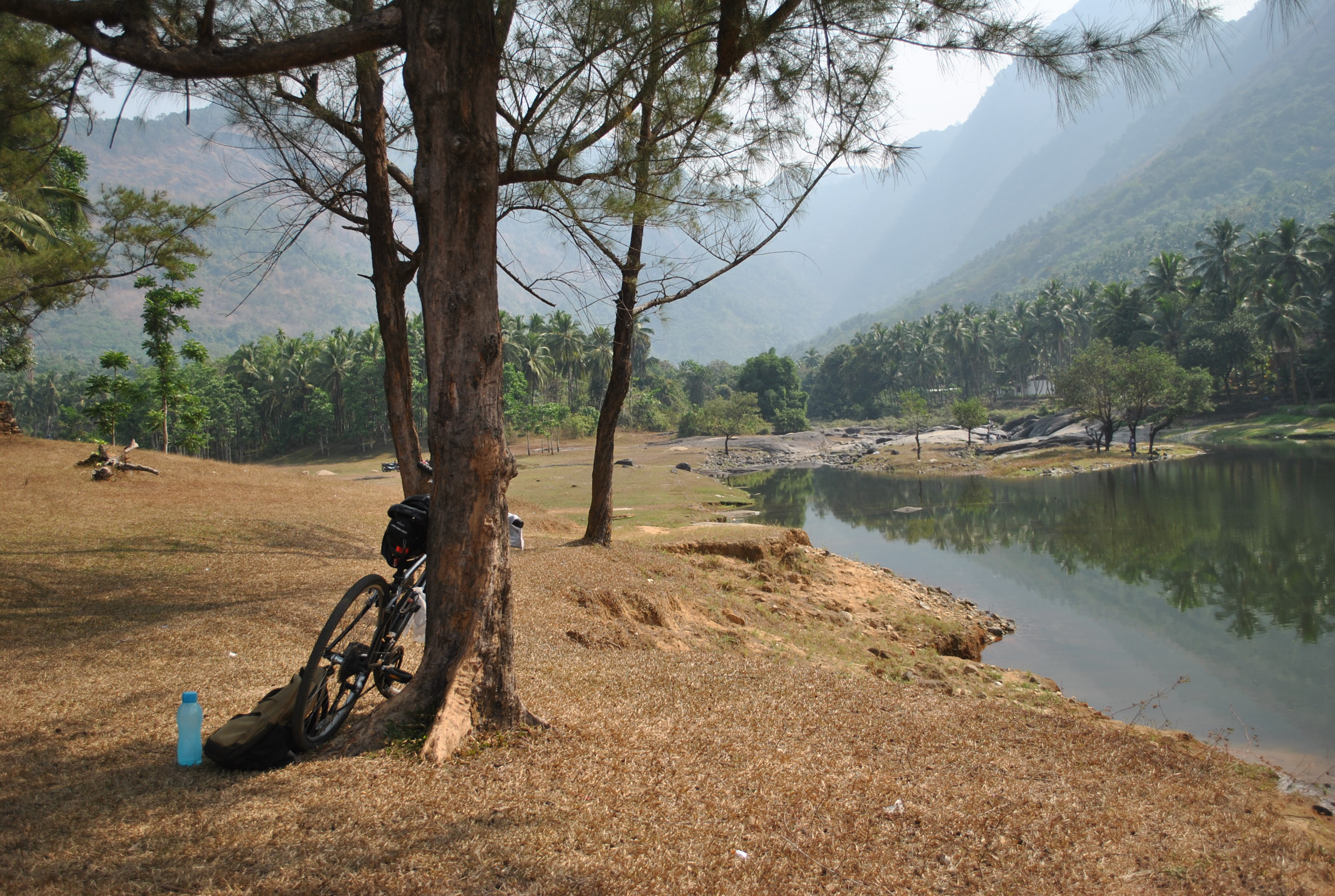 The beautiful Kakkayam Valley during summer with water having dried up. It is a calm place to relax and enjoy.